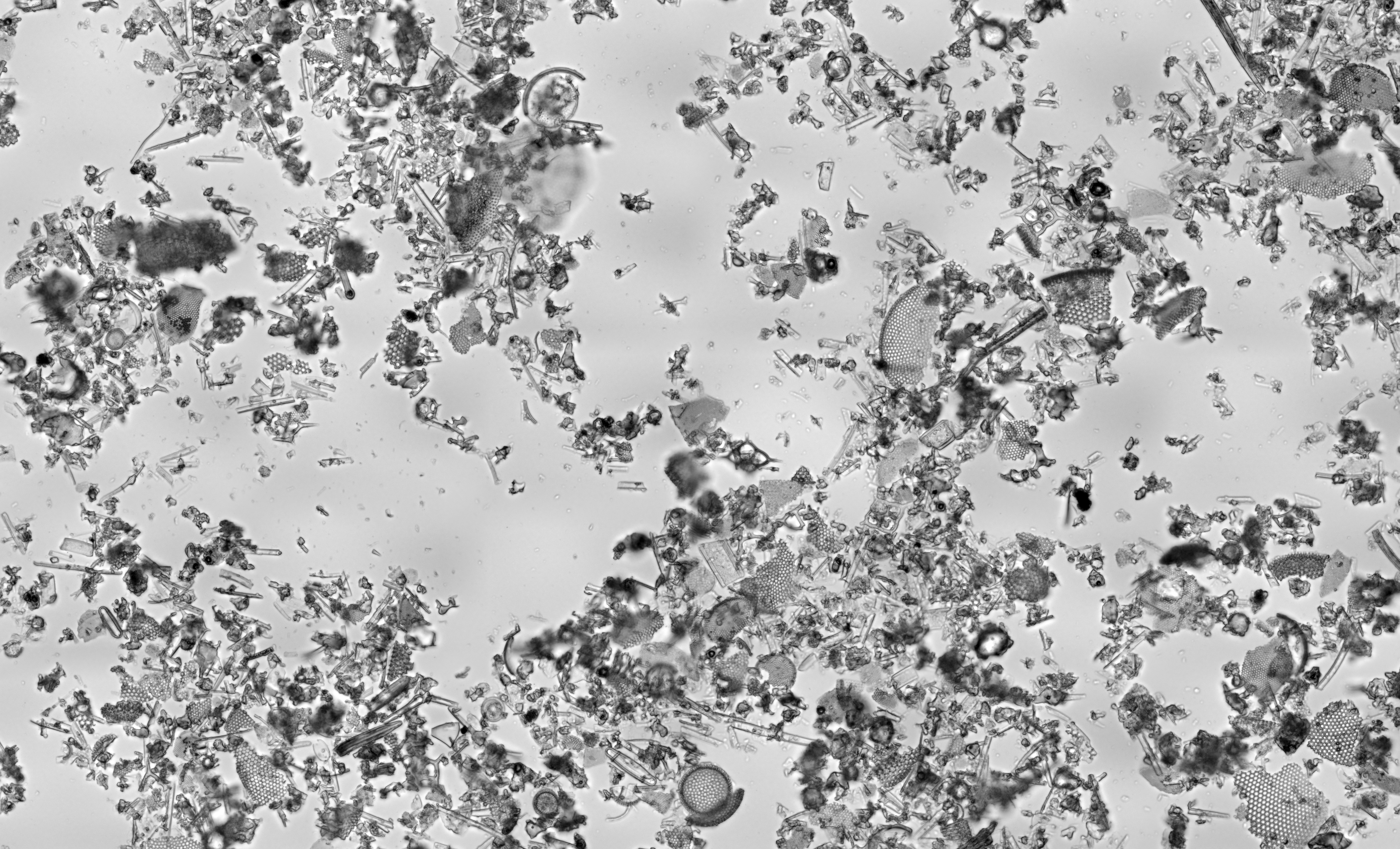 Diatomaceous earth, also known as diatomite or kieselgur, as viewed under bright field illumination on a light microscope. Diatomaceous earth is a soft, siliceous, sedementary rock made up of the cell walls/shells of single cell diatoms and readily crumbles to a fine powder. Diatom cell walls are bivalve, i.e. made up of two halves, and are made up of biogenic silica; silica synthesised in the diatom cell by the polymerisation of silicic acid. This sample consists of a mixture of centric (radially symmetric) and pennate (bilaterally symmetric) diatoms. The primary uses of diatomaceous earth are for cleaning (scouring), filtration, heat-resistive insulation and as an inert absorbent substrate. One of the most famous uses was by Alfred Nobel who developed dynamite; a mixture of diatomaceous earth and nitroglycerin. This image of diatomaceous earth particles in water is at a scale of 6.236 pixels/μm, the entire image covers a region of approximately 1.13 by 0.69 mm.